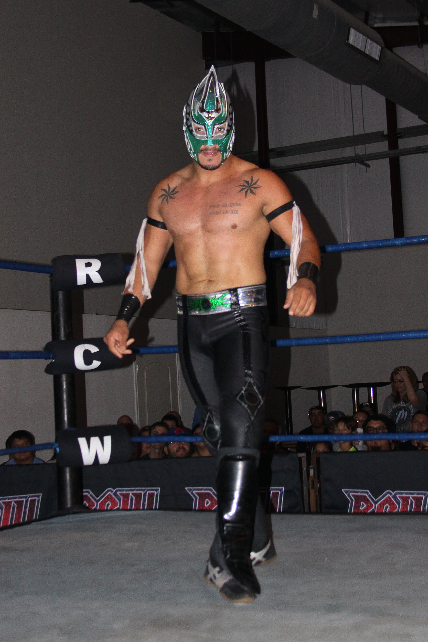 Professional wrestler Laredo Kid in july 2018.